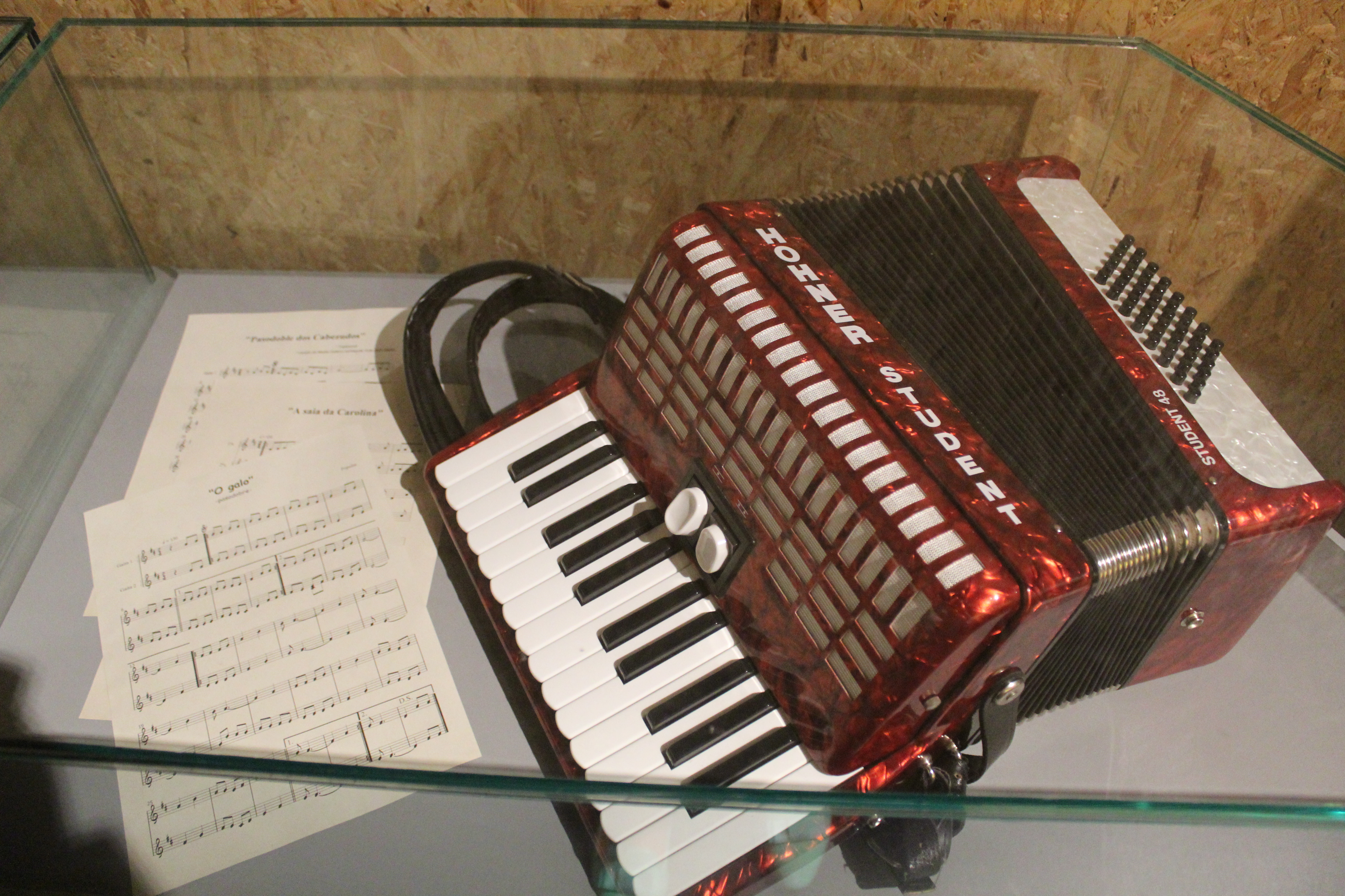 Instrumento que se tocaba no entroido